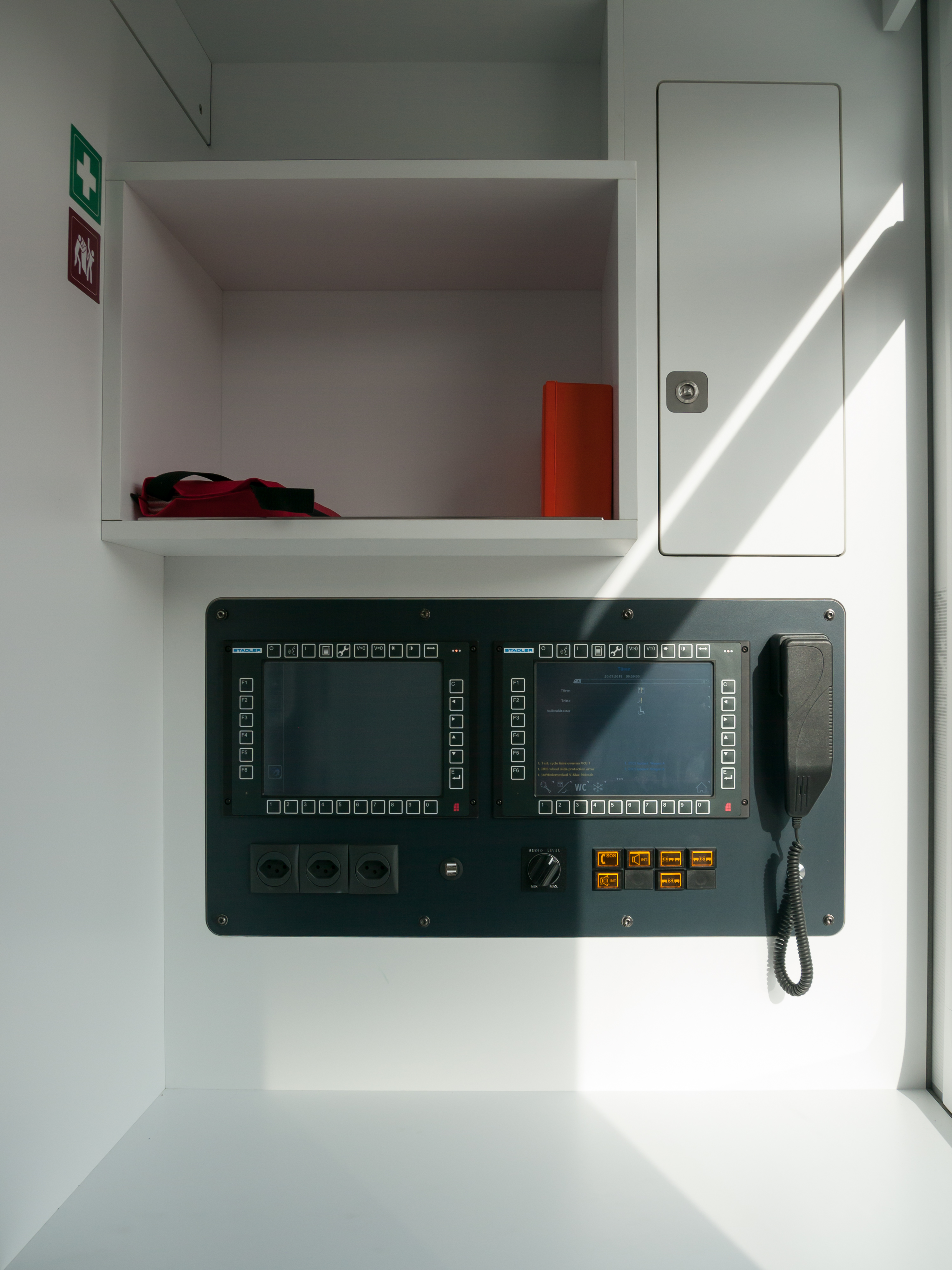 Stadler FLIRT Traverso train for Südostbahn (Switzerland) at Innotrans 2018 fair in Berlin, Germany